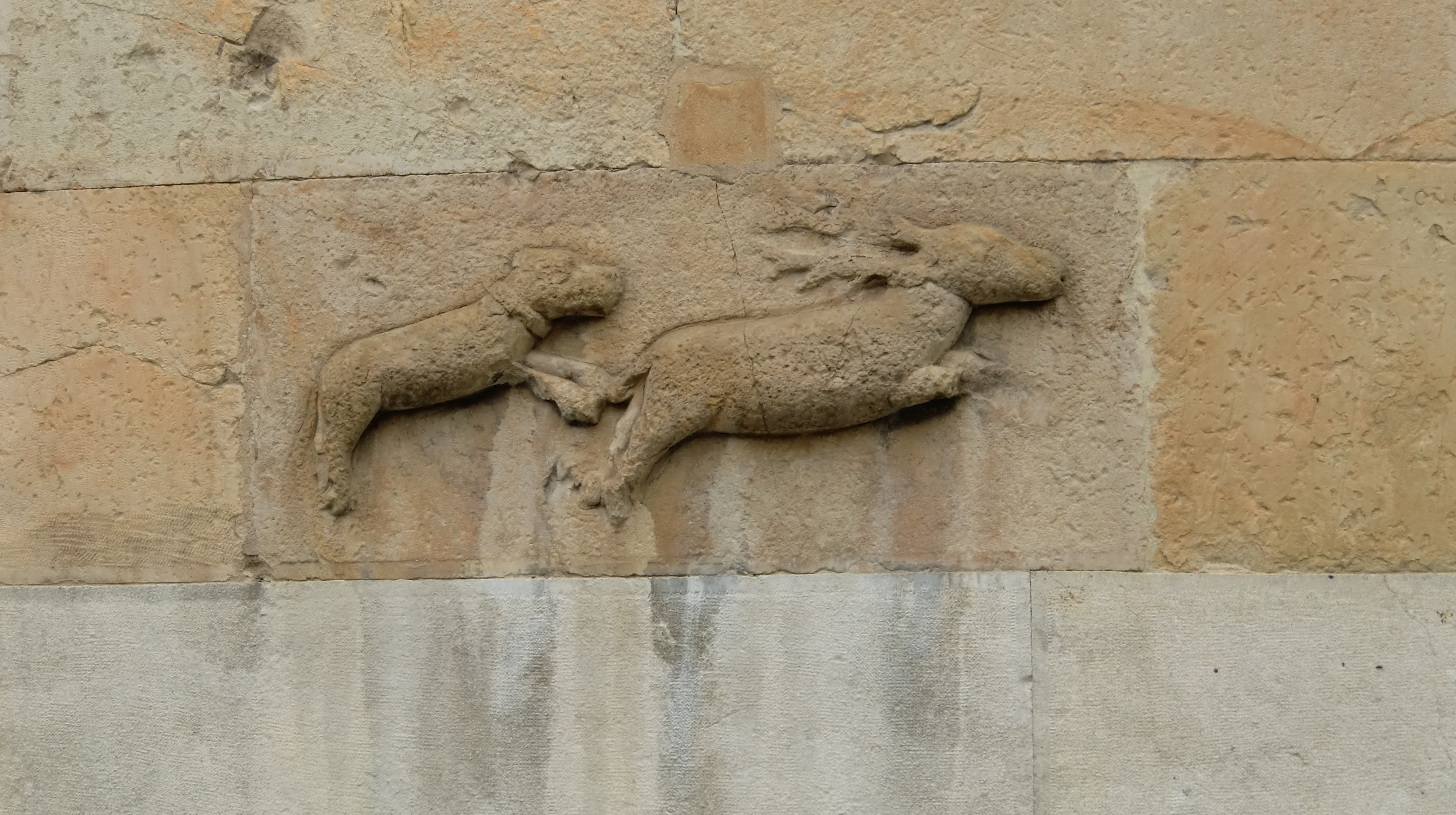 Dog chasing a deer, bas-rilief on the apse, XIII century, Duomo di Fidenza